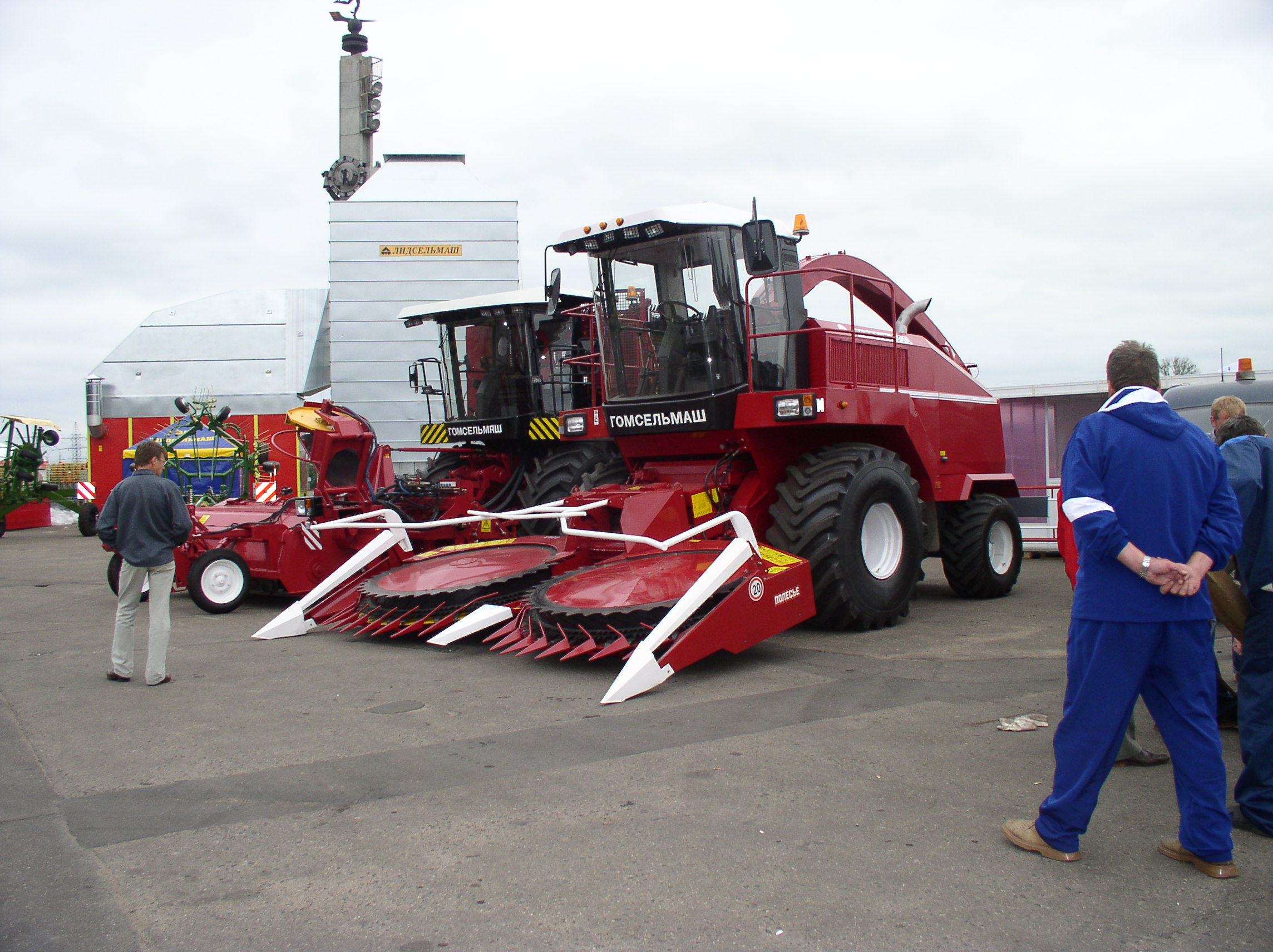 Forage harvester Gomselmash "Palesse" (a beet harvester behind). Agriculture Expo in Minsk, Belarus.